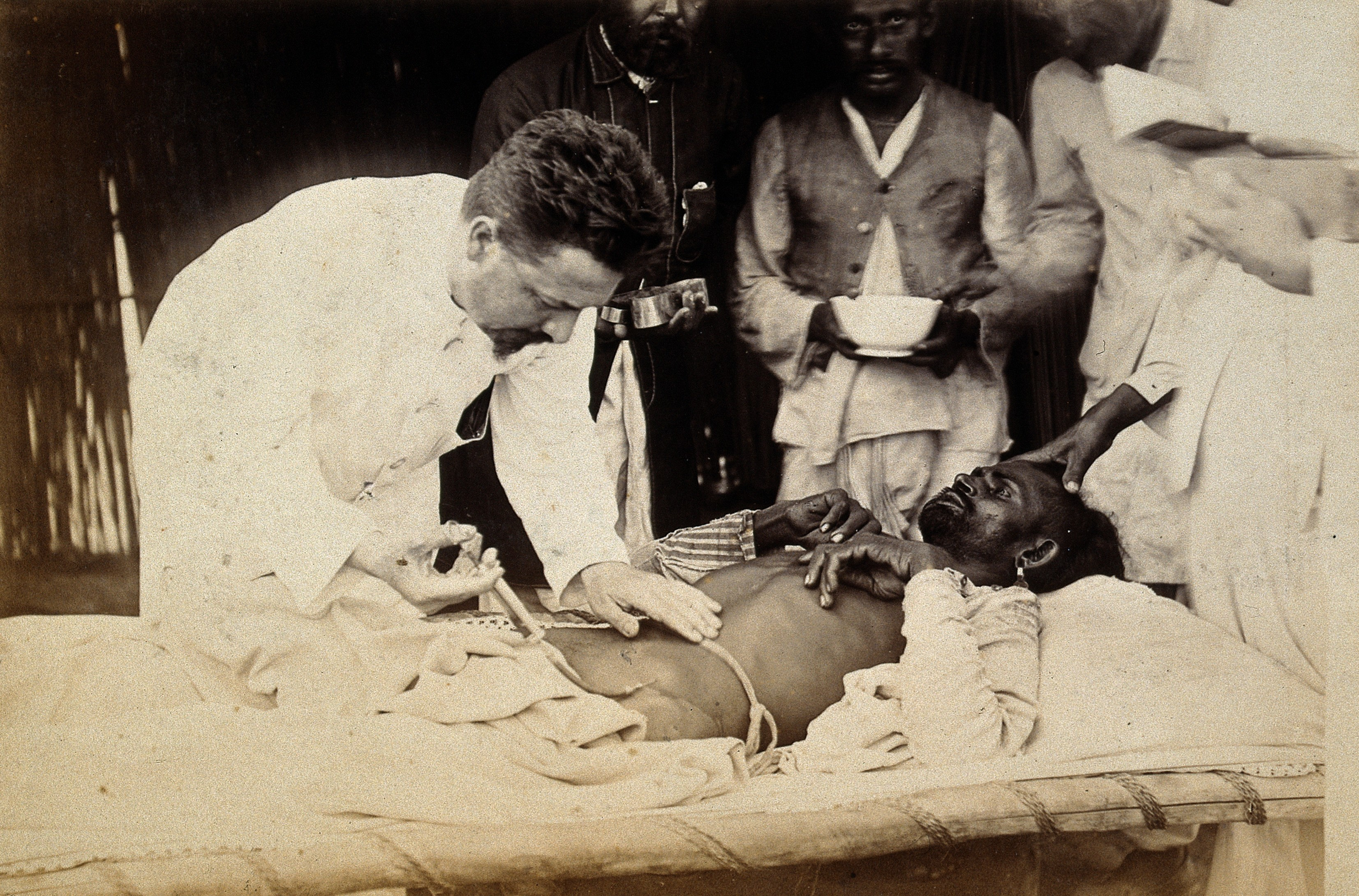 Doctor Simmonds injecting his curative serum in a plague patient, during the outbreak of bubonic plague in Karachi, India. Photograph, 1897. Photograph probably by Jalbhoy, R. The lettering is printed on the mount Karachi is a port in the province of Sind (now [1996] Pakistan). It was placed in quarantine in 1882, during the outbreak of bubonic plague which spread from Bombay. The Plague Committee consisted mostly of volunteers, who were organised into parties and were responsible for the segregation and inoculation of various districts Contained in an album of photographs which show the work of the Karachi Plague Committee in 1897 Iconographic Collections Keywords: Karachi Plague Committee (India)